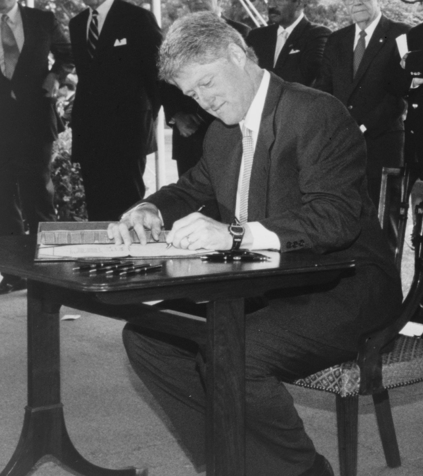 President Bill Clinton signing the National Voter Registration Act of 1993 (Motor Voter Act), as Vice-President Albert Gore and notable members of Congress look on